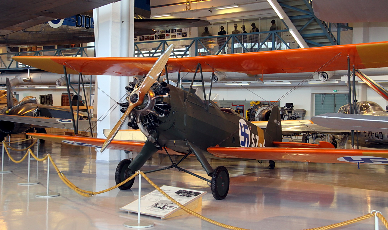 Focke-Wulf FW 44 Stieglitz (SZ-4) in Aviation Museum of Central Finland.